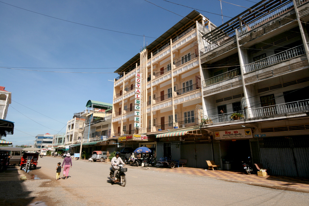 Downtown of Battambang in Cambodia in October 2009.